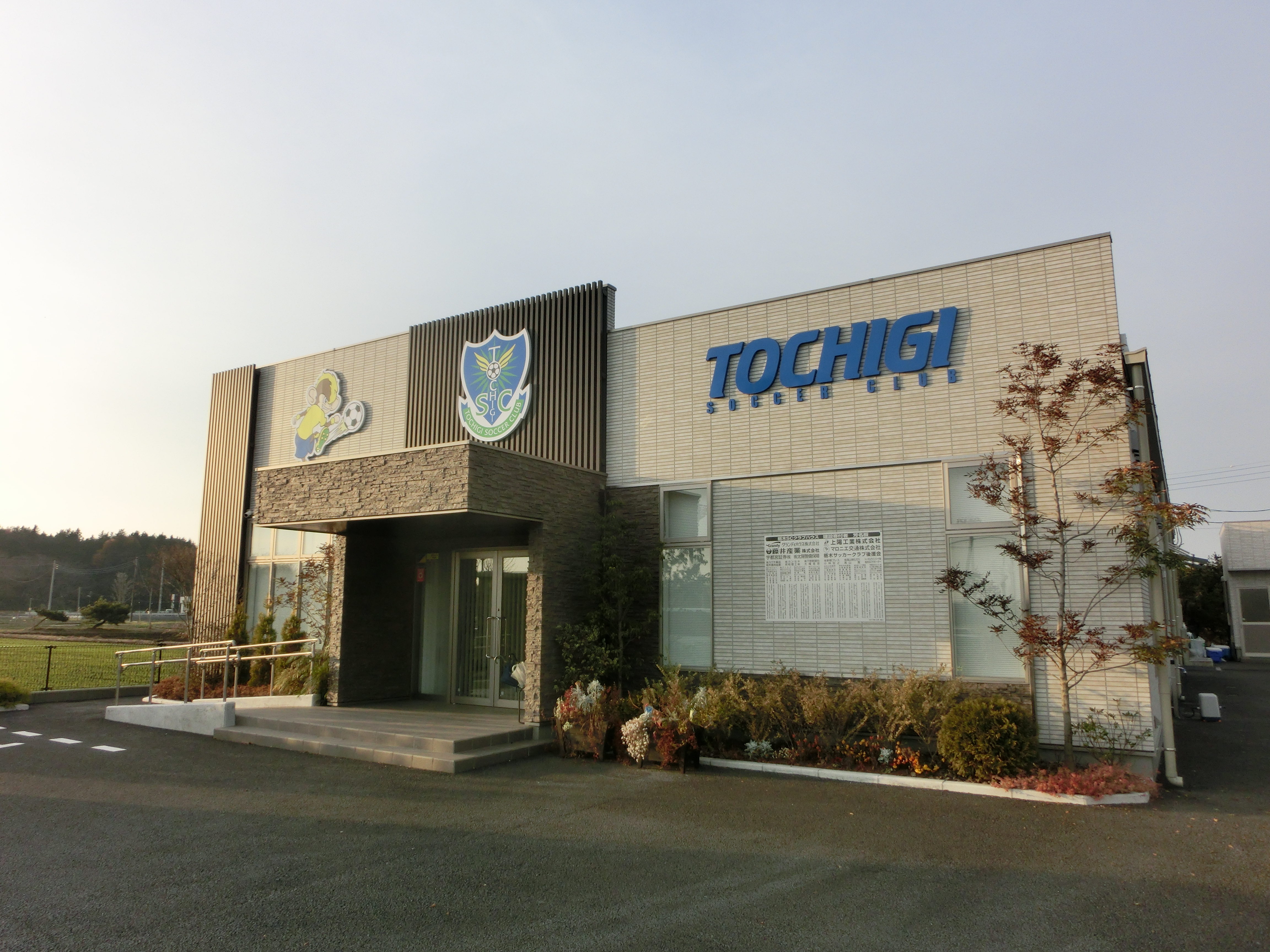 Tochigi-SC Club House